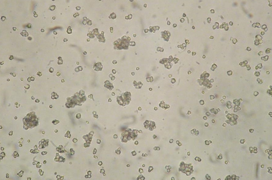 Rice starch seen on light microscope